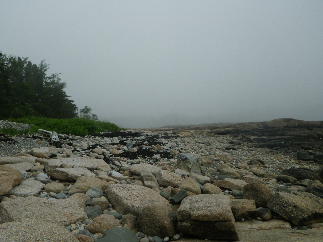 trail exit on east shore